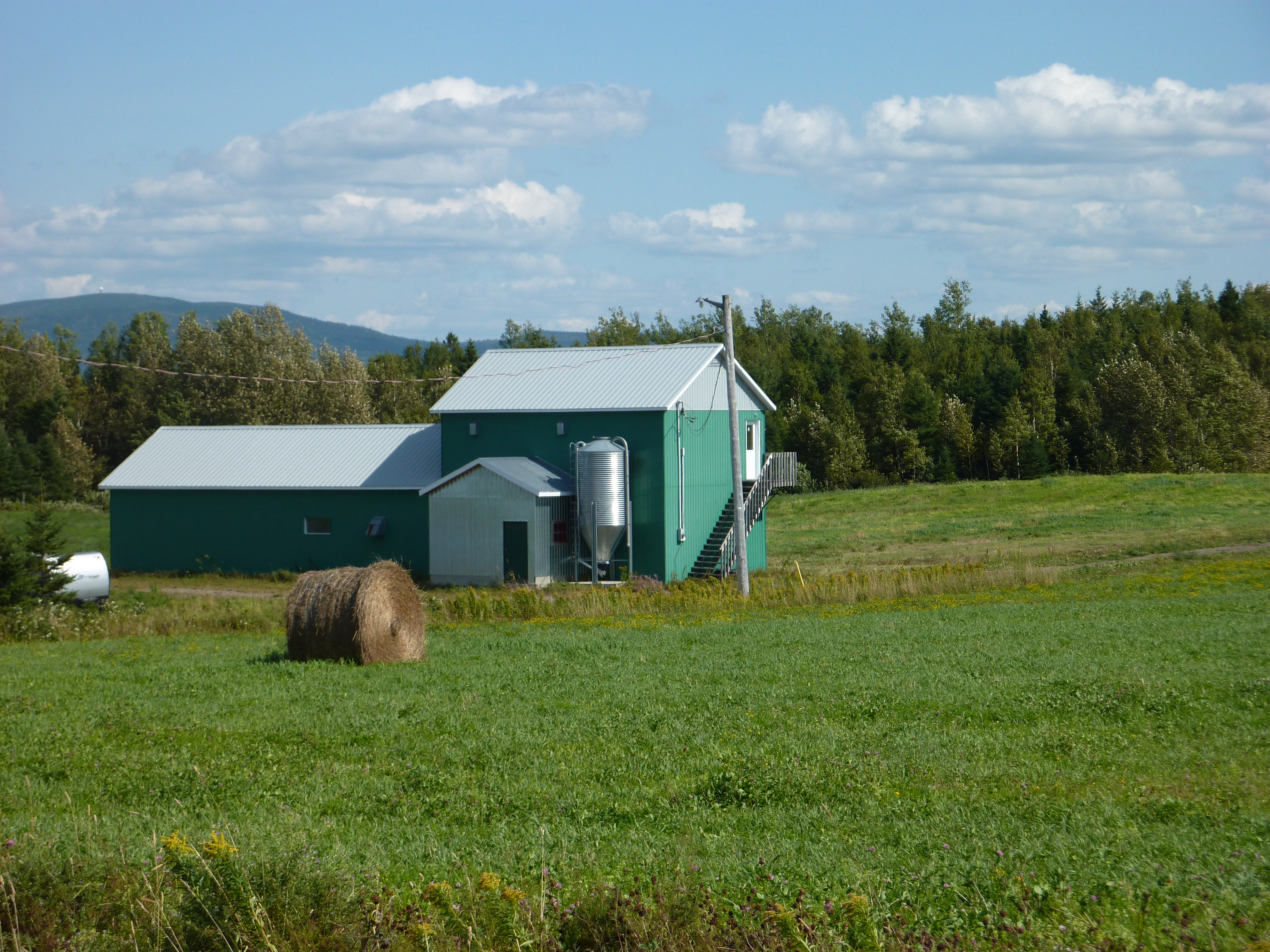 Farm at Saint-Cléophas, Qc